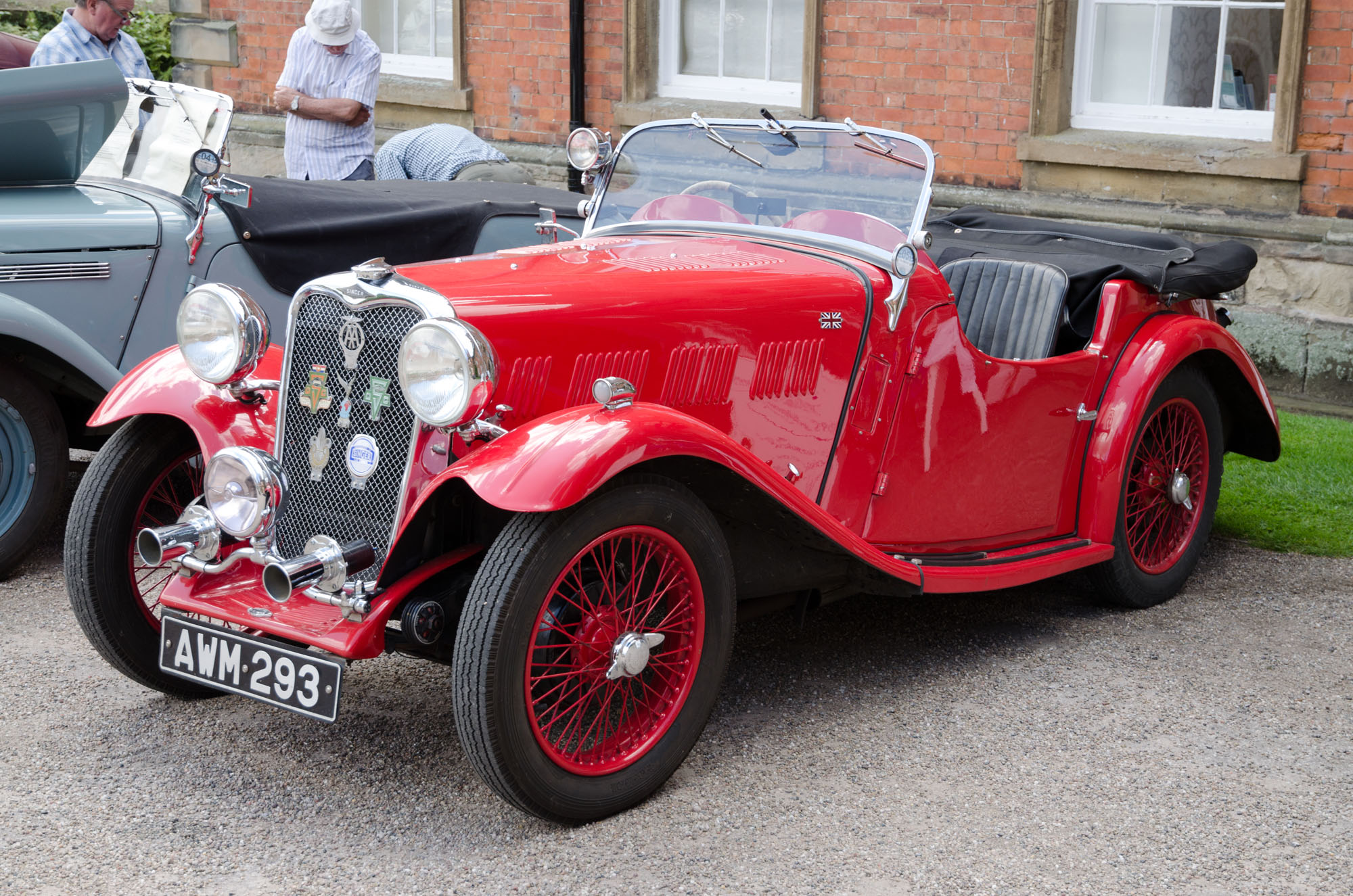 1935 Singer 9 Le Mans (DVLA) manufactured 1935 972 cc Capesthorne Hall Classic Car Show 27/07/2014